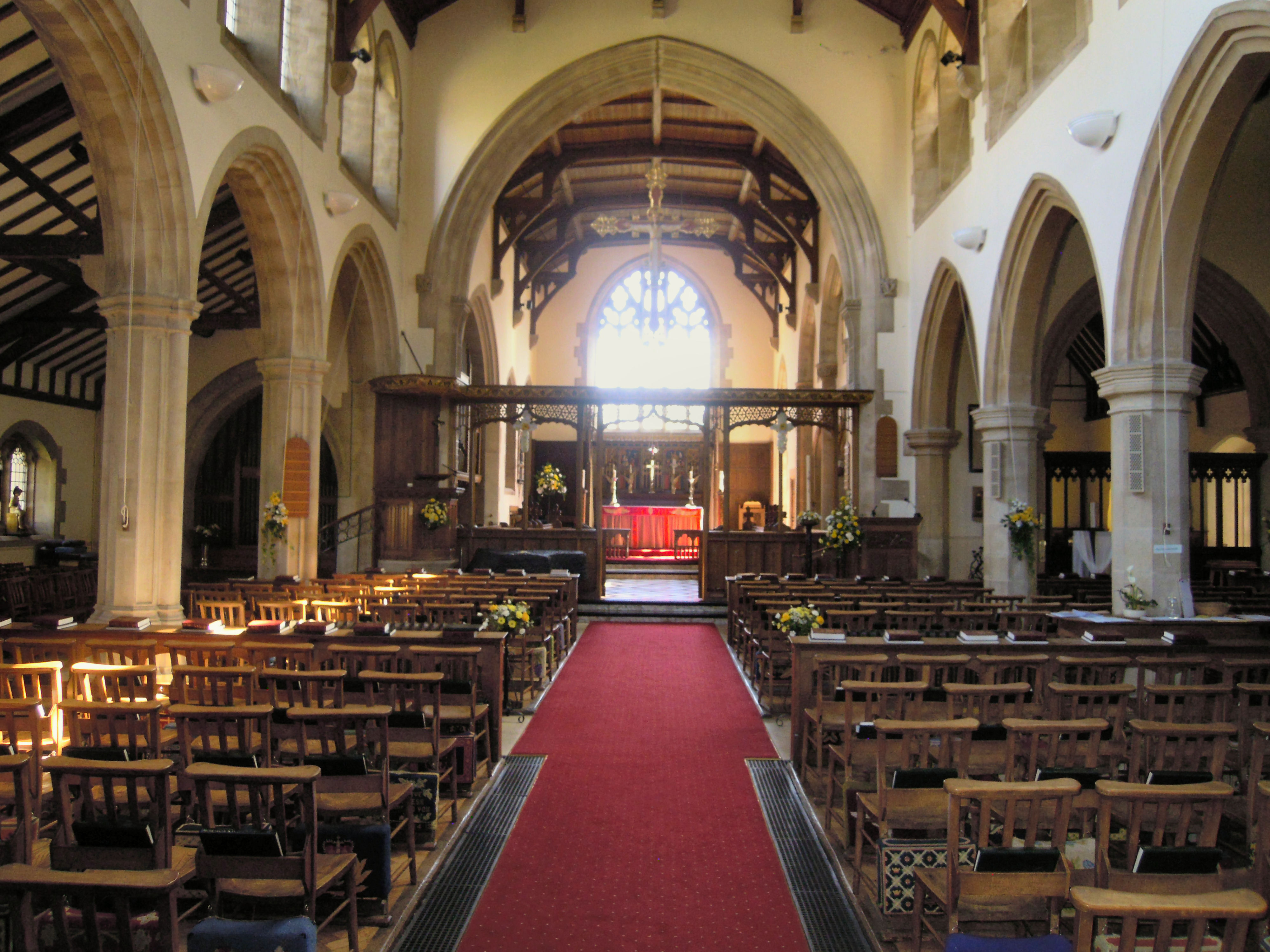 The nave in the Church of St Michael the Archangel